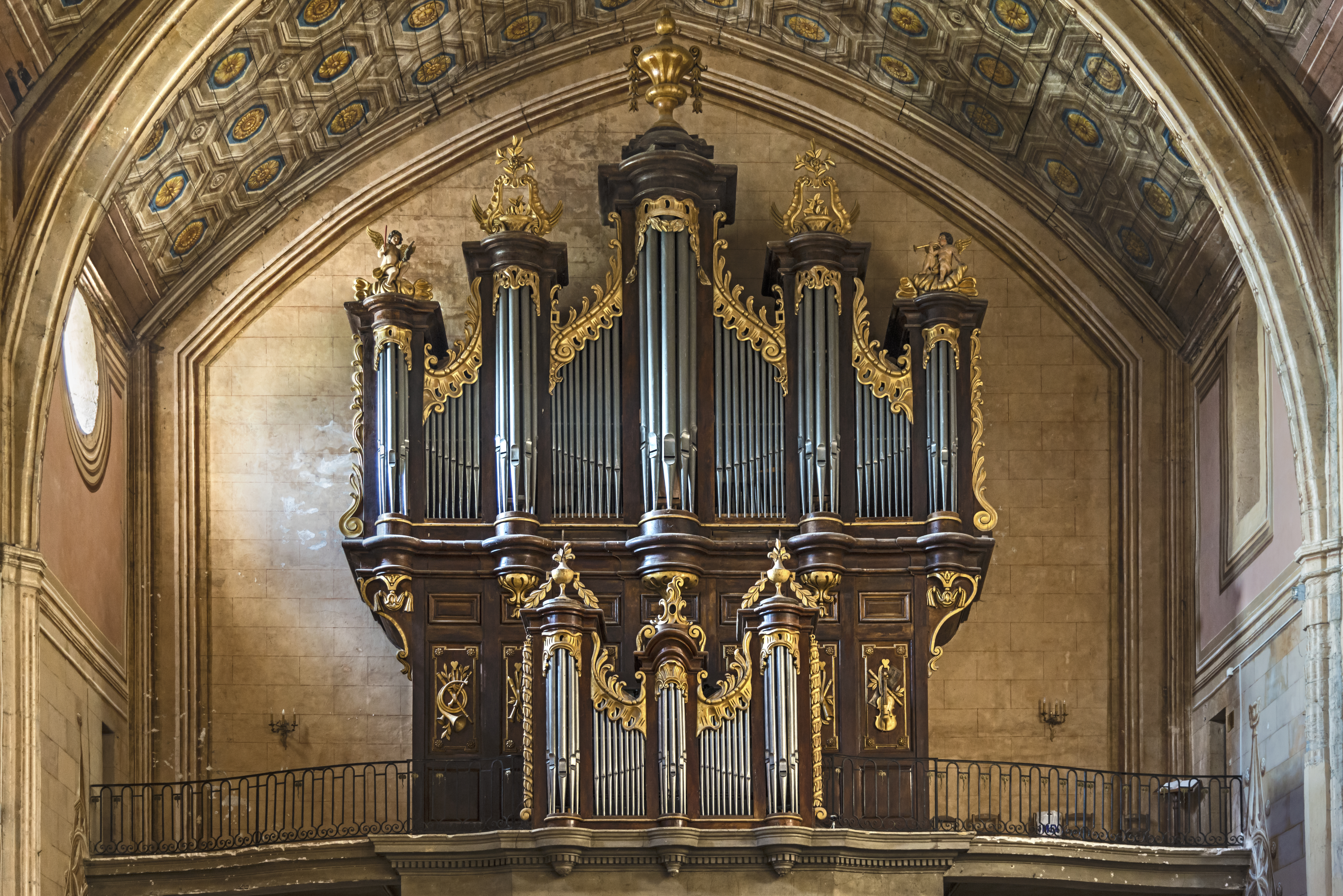 Church Saint-Félix of Saint-Félix-Lauragais. Gallery organ.